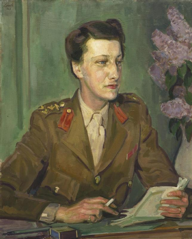 Chief Controller Leslie Violet Lucy Whateley, Cbe - Director of Ats, 1943 image: a half-length portrait of Chief Controller Leslie Violet Lucy Whateley in uniform, sitting at a desk. In one hand she holds a document and in the other a cigarette.